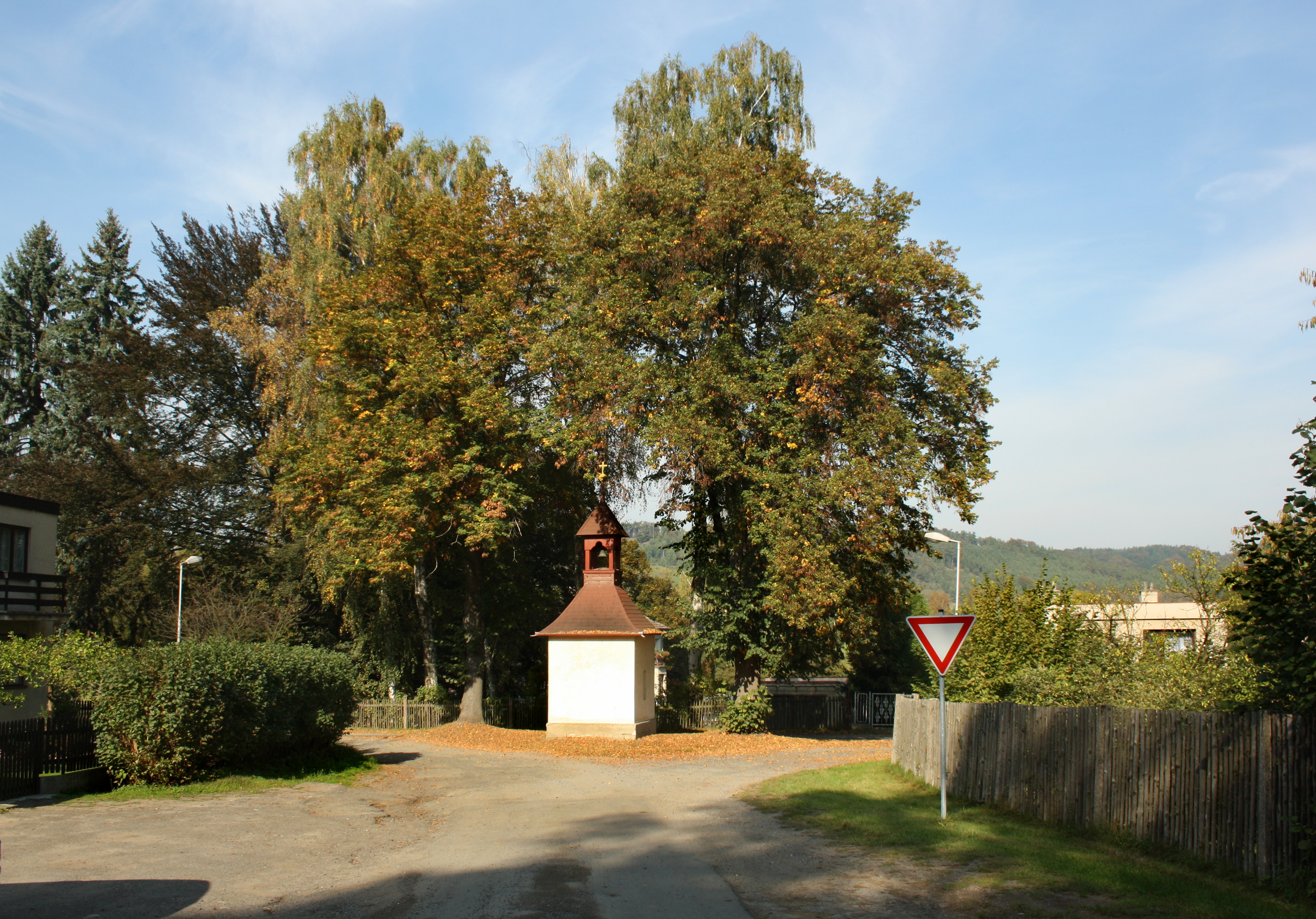 Chapel in Nová Ves, part of Branžež, Czech Republic